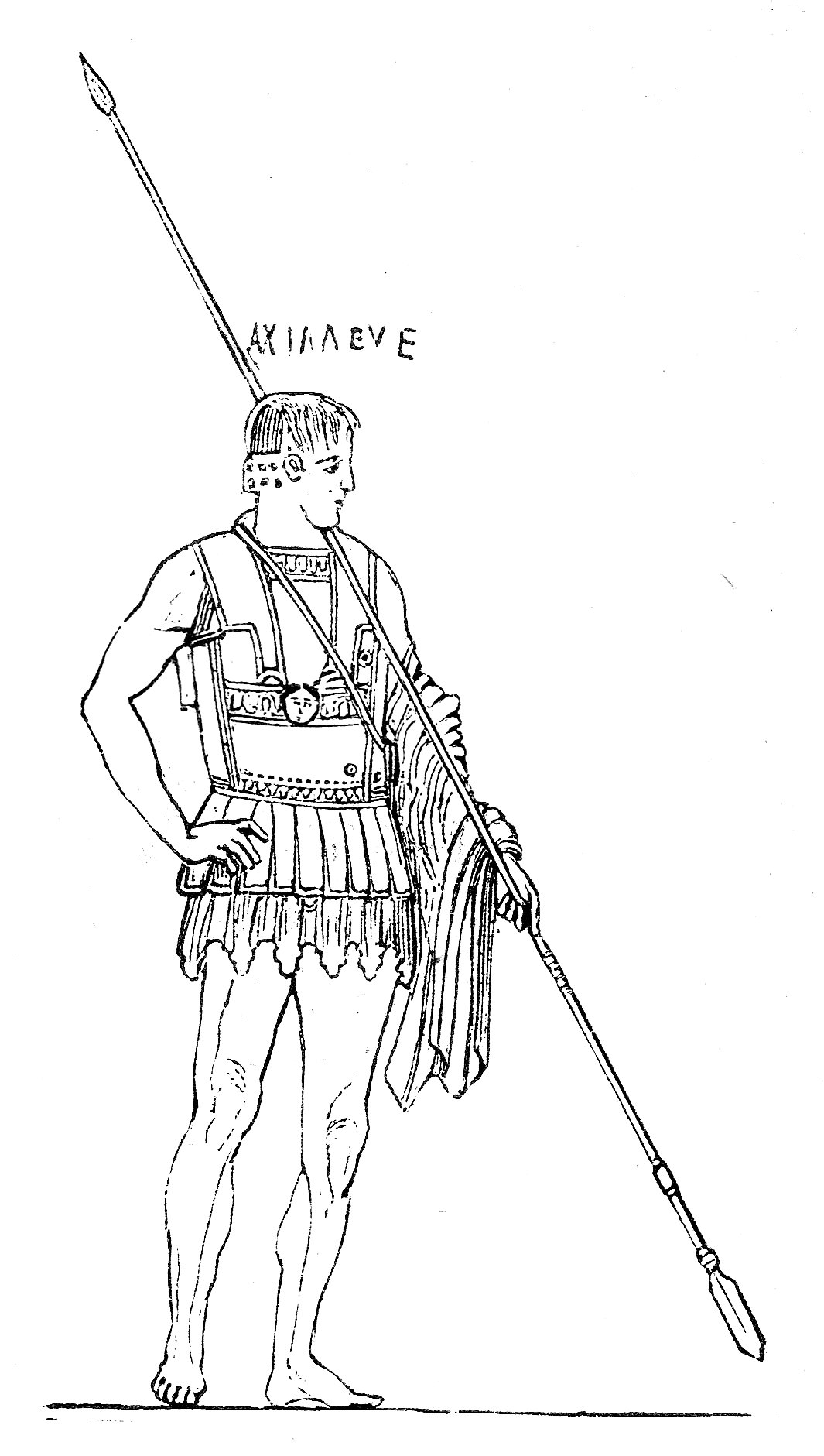 Illustration from "Illustrerad verldshistoria utgifven av E. Wallis. volume I": Achilles.